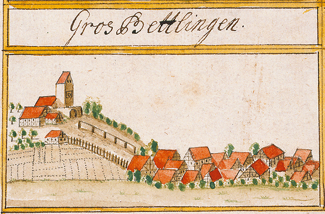 View of Großbettlingen from the forest register books created by Andreas Kieser